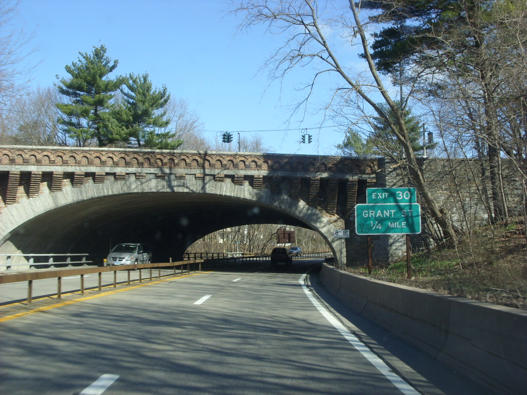 Saw Mill River Parkway approaching the junction with exit 30, Grant Street in Pleasantville, New York.